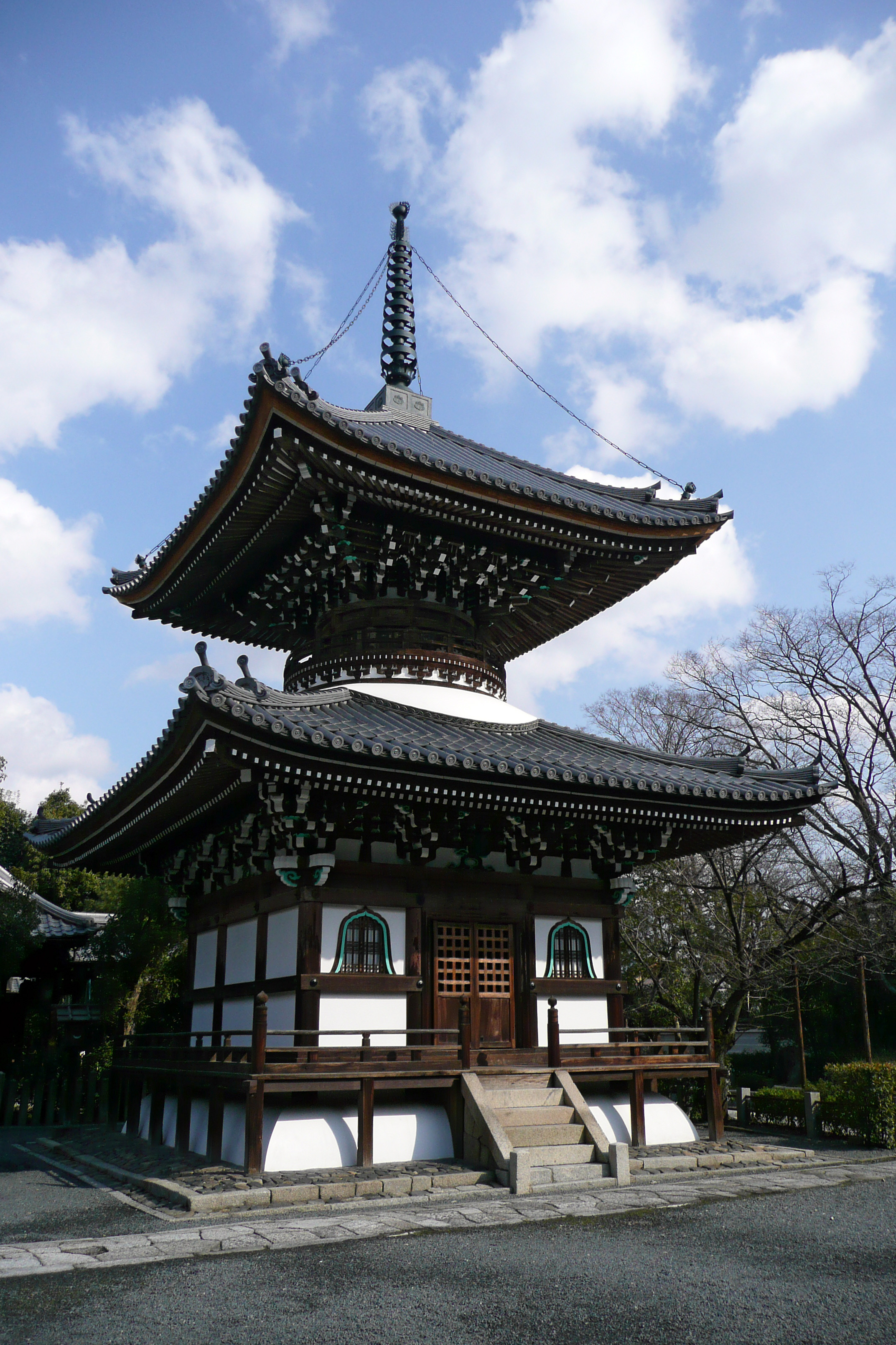 Honpoji in Kyoto, Kyoto prefecture, Japan